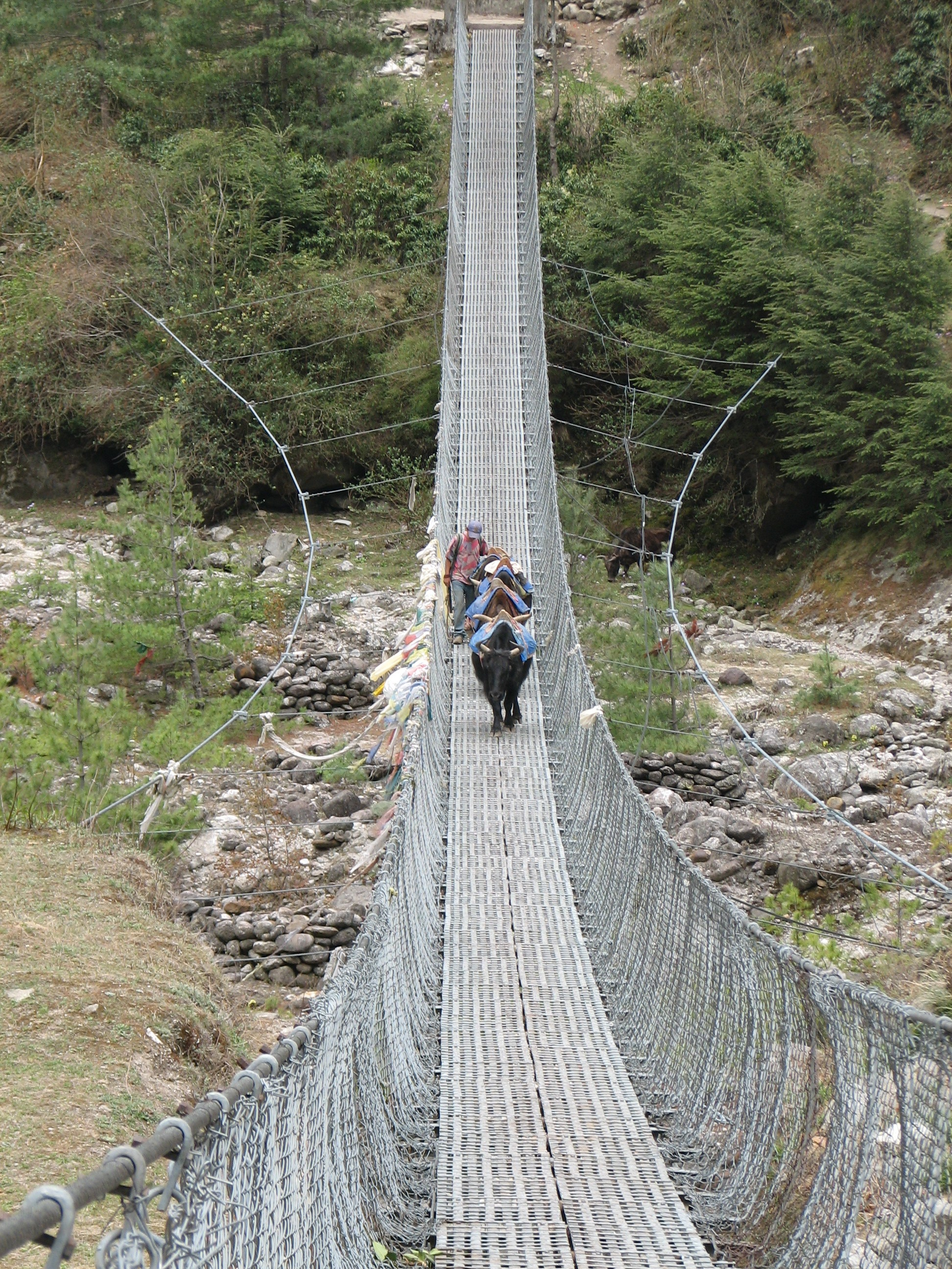 At the bridge, we have to wait for these yak to cross. The rules of the "road" for trekking the Himalayas: yaks have the right of way. Not that they are agressive (actually, they are surprising skittish), but because they are oblivious to you and bigger than you and take up a lot of the trail. So like semi trucks, they move at their own slow pace and you wait and take the passing lane when you can. The yak is the most important domesticated animal of the high Himalayan region serving as their main beast of burden as well as providing high-quality milk. It was common to see large caravan trains of yaks carrying gear. The gentle tinkle of their neck bells became a familiar and comforting sound during our weeks in the region. In truth, these are not proper yaks, but are crossbreeds (variously called Dzomo, Dzo, Dzopko, Dzopkia, Mdzo-mo, or Dzum depending on what type of crossbreed it is and the language - Nepali, Sherpa, Tibetan, etc). So in the southern regions, most of the "yak" caravans were actually Dzopkia whereas higher up, we encoutered more full-blooded yaks better sutied for the cooler temperatures and thinner air.